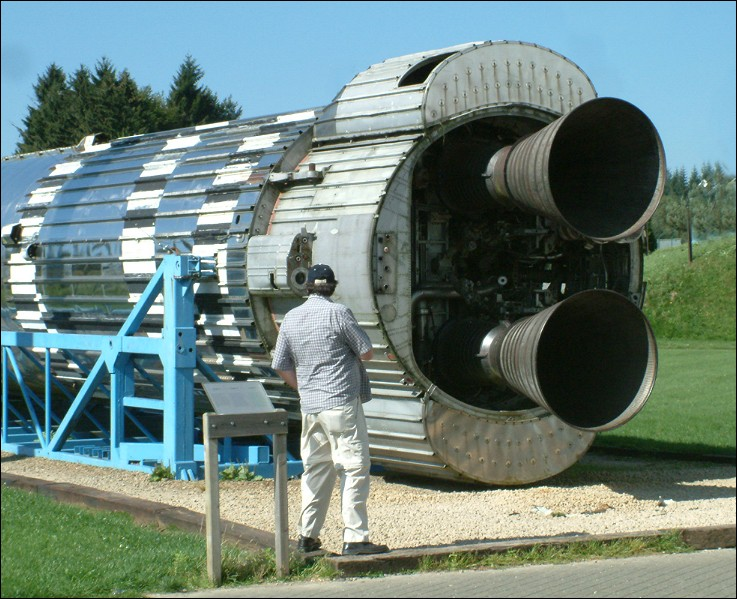 Europa II rocket, main stage engines (Blue Streak) built by Rolls Royce, on display at Euro Space Center, Transinne, Belgium.